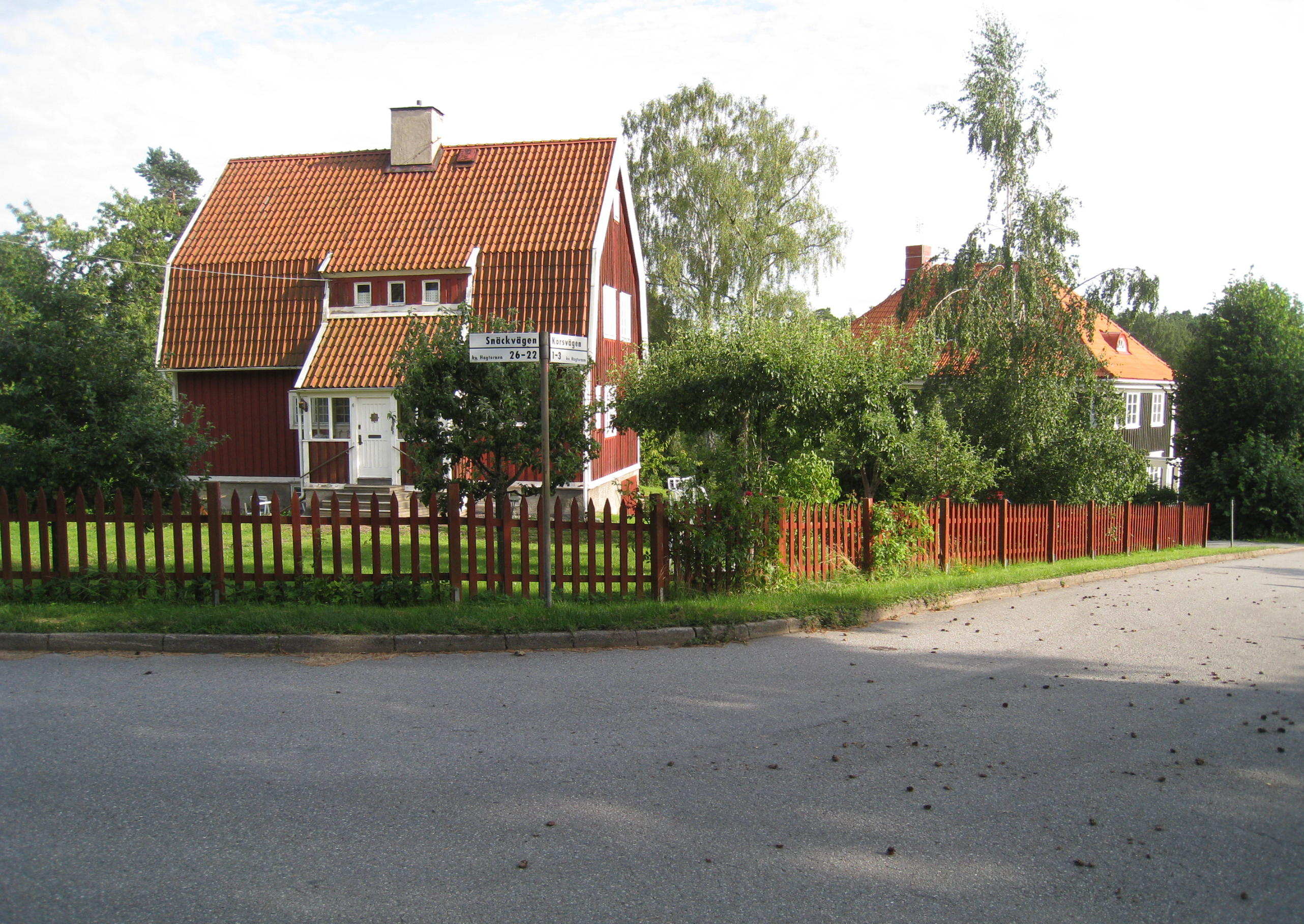 Villa in Äppelviken at Snäckvägen 22, Bromma, western Stockholm. Knut Tengdahl (1867-1935), member of the Riksdag and local member politician, lived in the house in the 1910-, 1920- and 1930's. He was the neighbour of lord mayor Carl Lindhagen (1860-1946), who lived in the dark brown house to the right.